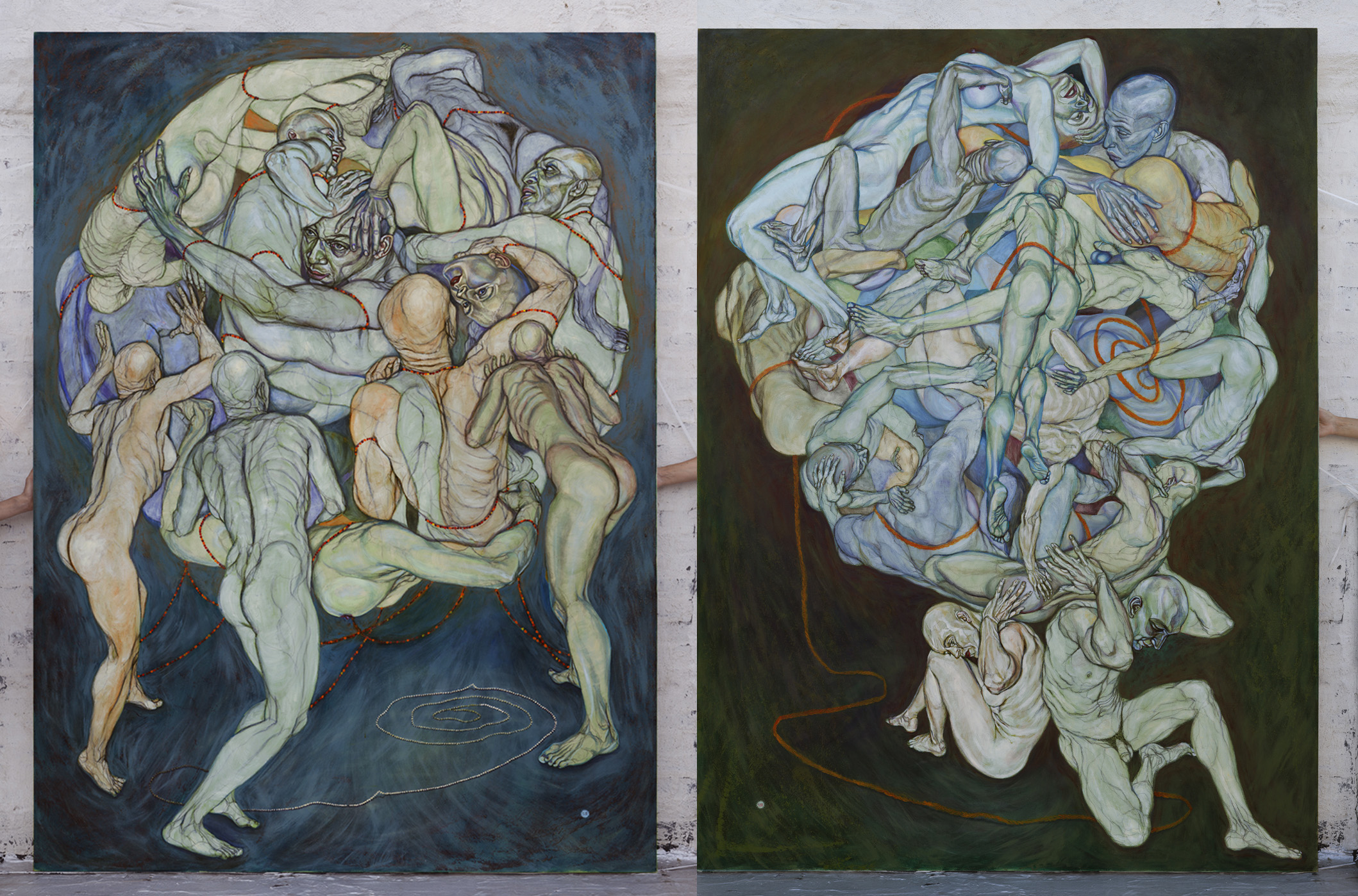 Sol Kjøk, "Strings Attached" and "Stitched with Its Color", 2008-2013. Oil and Pierre Noire on canvas, 96" x 71"